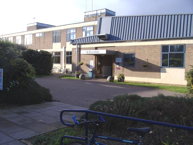 Princess of Wales Hospital, Ely Once a hospital for RAF personnel, it is now a hospital for the general community.